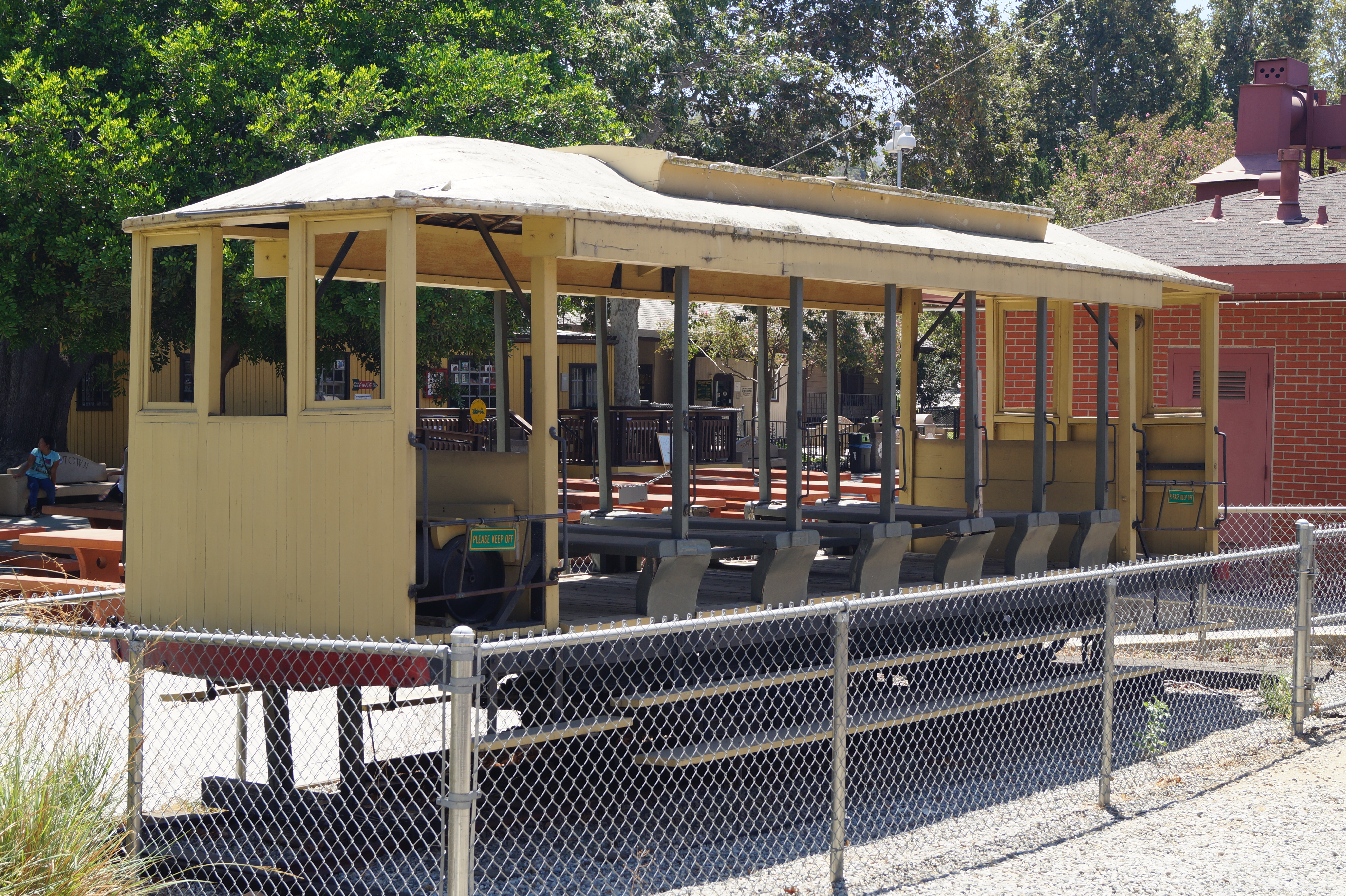 Travel Town Museum is a transport museum dedicated in the northwest corner of Los Angeles, California's Griffith Park. The history of railroad transportation in the western United States from 1880 to the 1930s is the primary focus of the museum's collection, with an emphasis on railroading in Southern California and the Los Angeles area.